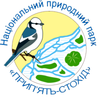 Regional Landscape Park «Prypiat-Stokhid»